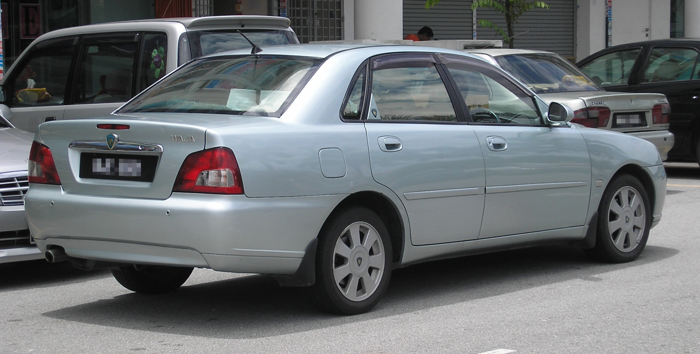 The rear of a first generation Proton Waja, in Serdang, Malaysia.